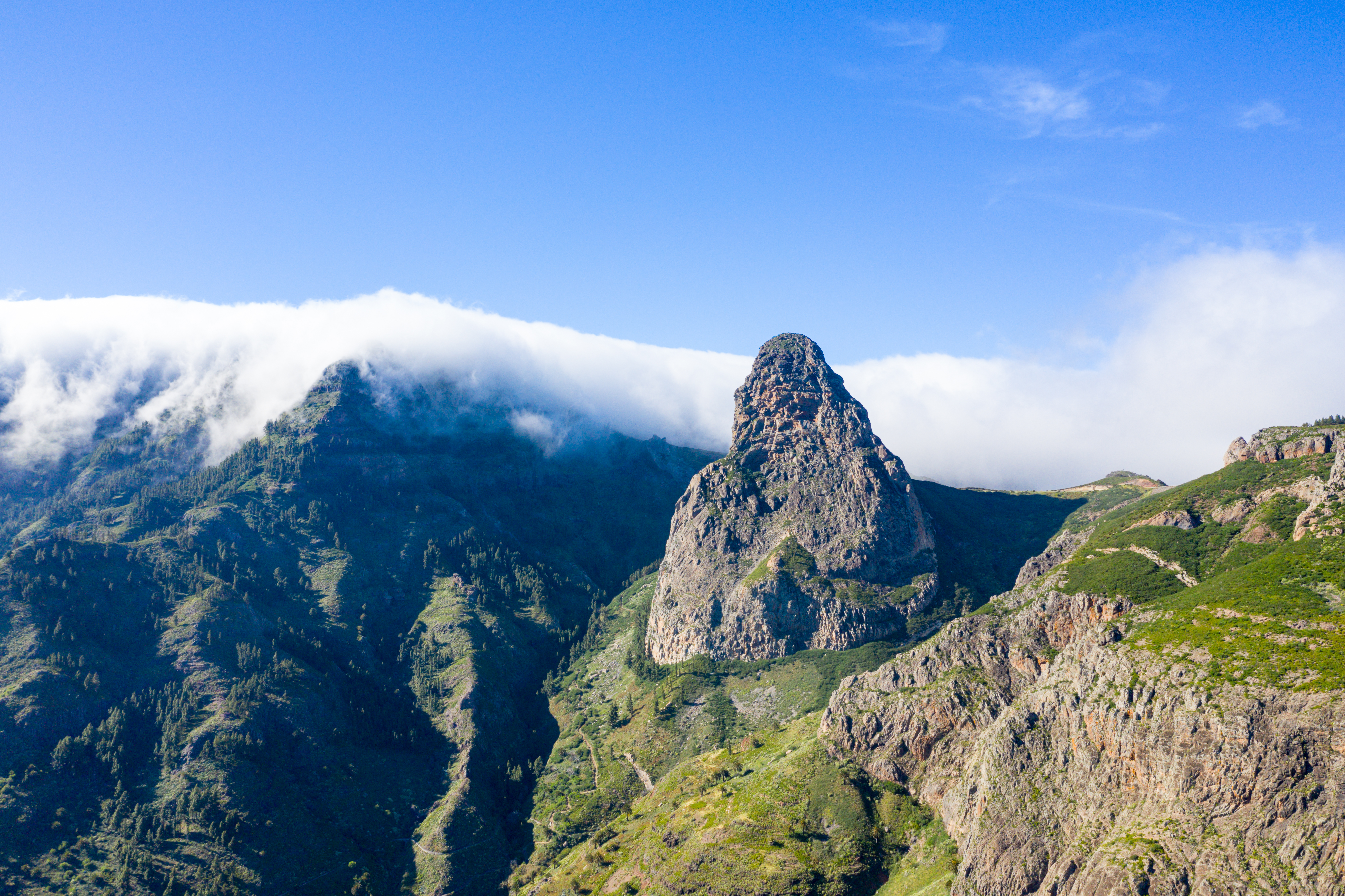 View of Roque de Agando from Mirador Del Morro De Agando observation on La Gomera